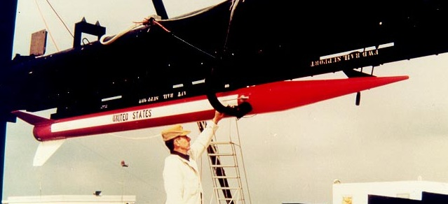 Black Brant III sounding rocket